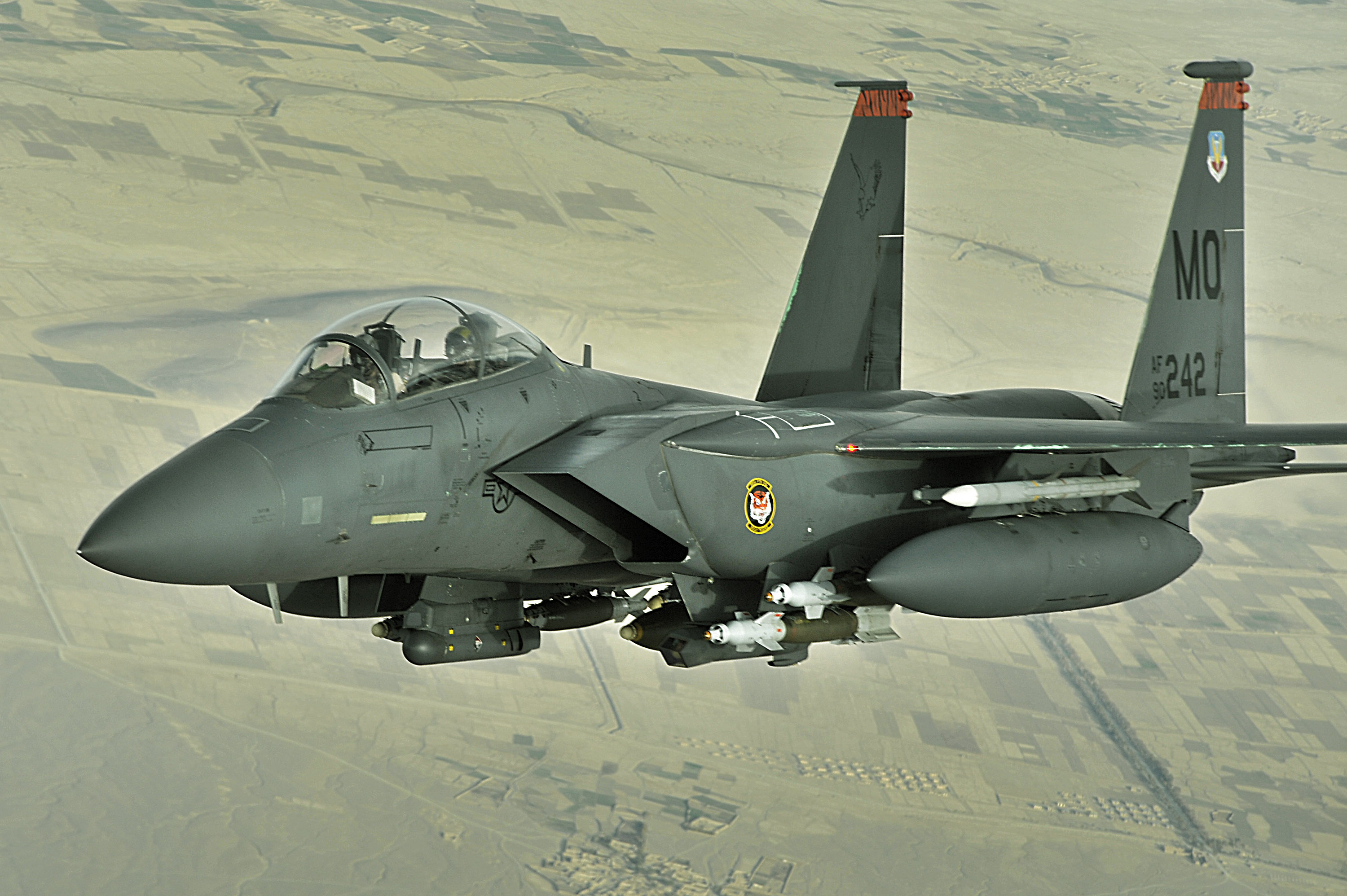 An F-15E Strike eagle conducts a mission over Afghanistan on Oct. 7. The F-15E Strike Eagle is a dual-role fighter designed to perform air-to-air and air-to-ground missions. An array of avionics and electronics systems gives the F-15E the capability to fight at low altitude, day or night, and in all weather. (U.S. Air Force photo/Staff Sgt. Aaron Allmon)